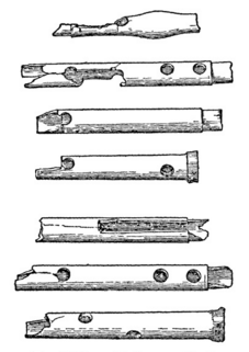 Depiction of the ivory aulos fragments, from Alexandria's museum